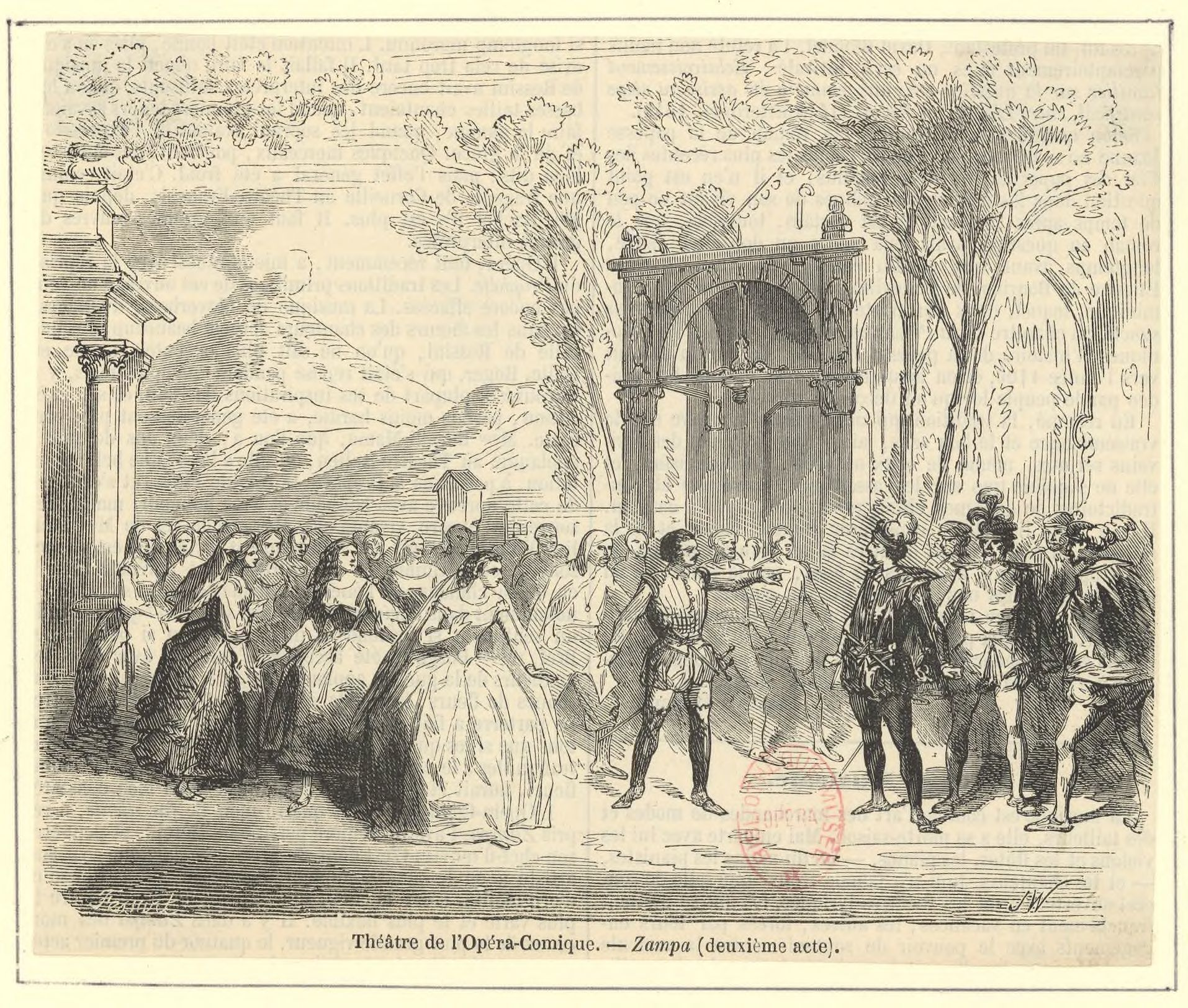 Ferdinand Hérold - Zampa - act 2